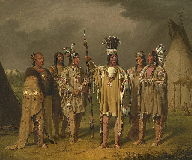 Six Blackfeet Chiefs painted by Paul Kane along the North Saskatchewan River in Saskatchewan Canada. "Amongst others, I sketched group No. 17, consisting of Big Snake, the centre figure; Mis-ke-me-kin, “The Iron Collar,” a Blood Indian chief, with his face painted red; to the extreme left of the picture, is a chief called “Little Horn,” with a buffalo robe draped round him, and between him and Big Snake is Wah-nis-stow, “The White Buffalo,” principal chief of the Sur-cee tribe. In the background stand two chiefs of inferior quality, one of them has his face painted half black, being in half-mourning for some friend." (Paul Kane, "Wanderings of an Artist," 1859:424–425)